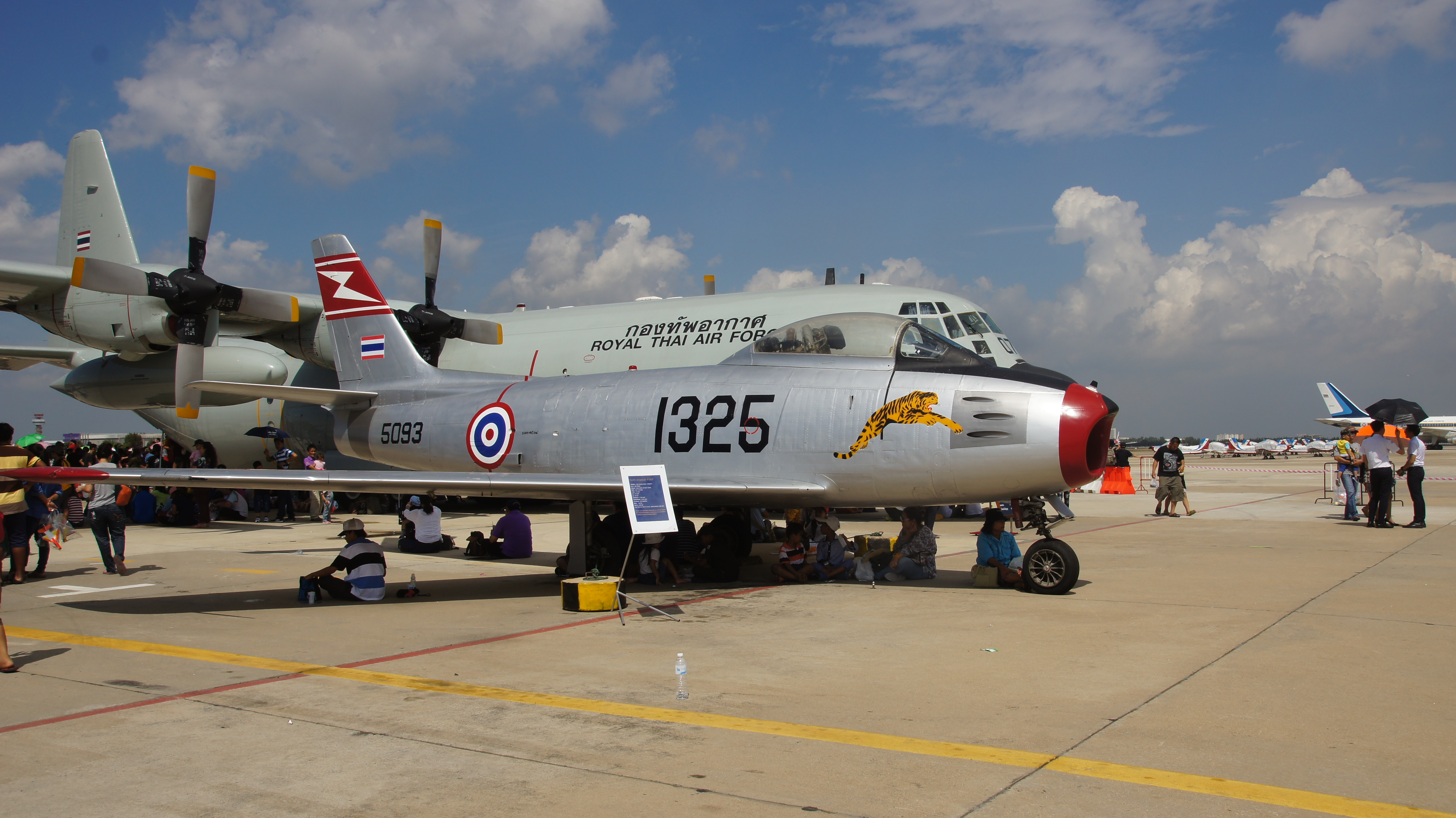 A retired Royal Thai Air Force F-86